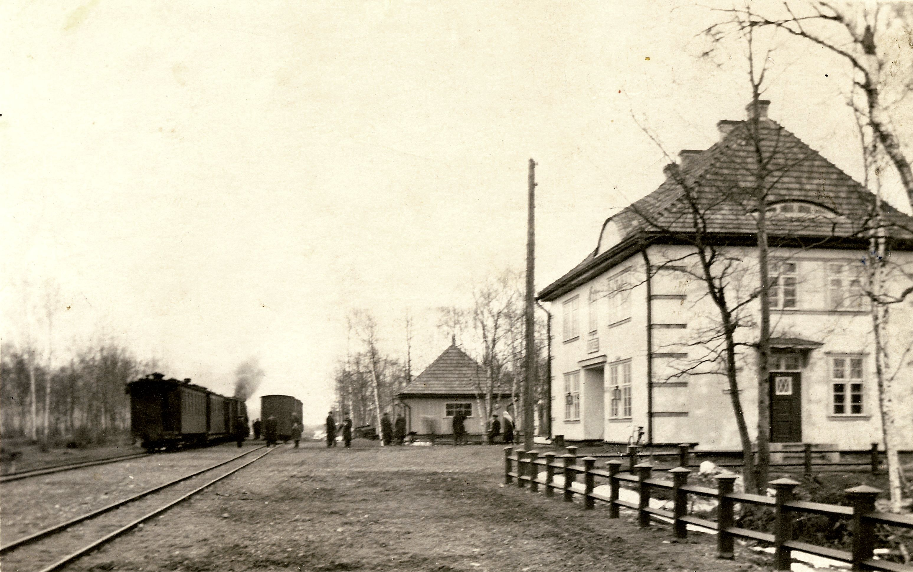 Karuse railway station in 1930's